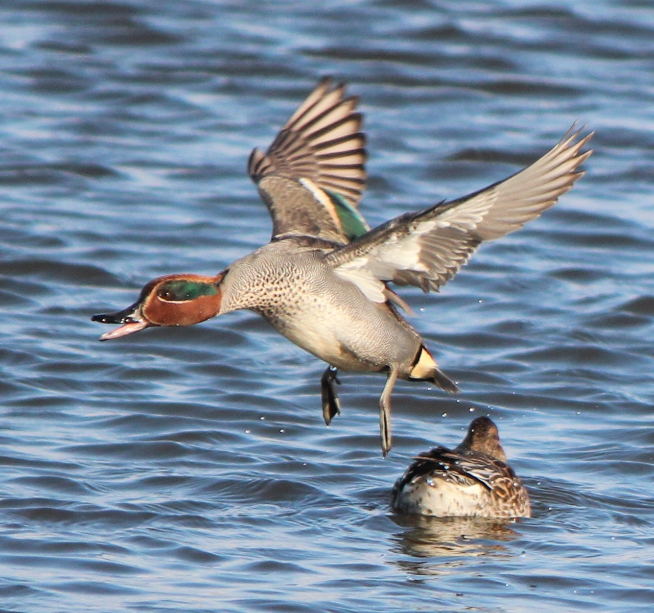 Anas crecca (Eurasian Teal), in air in Japan.